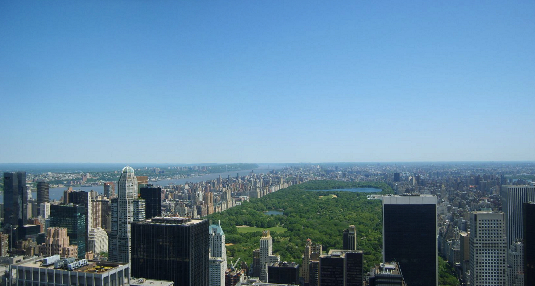 View of Central Park from Rockefeller Center.